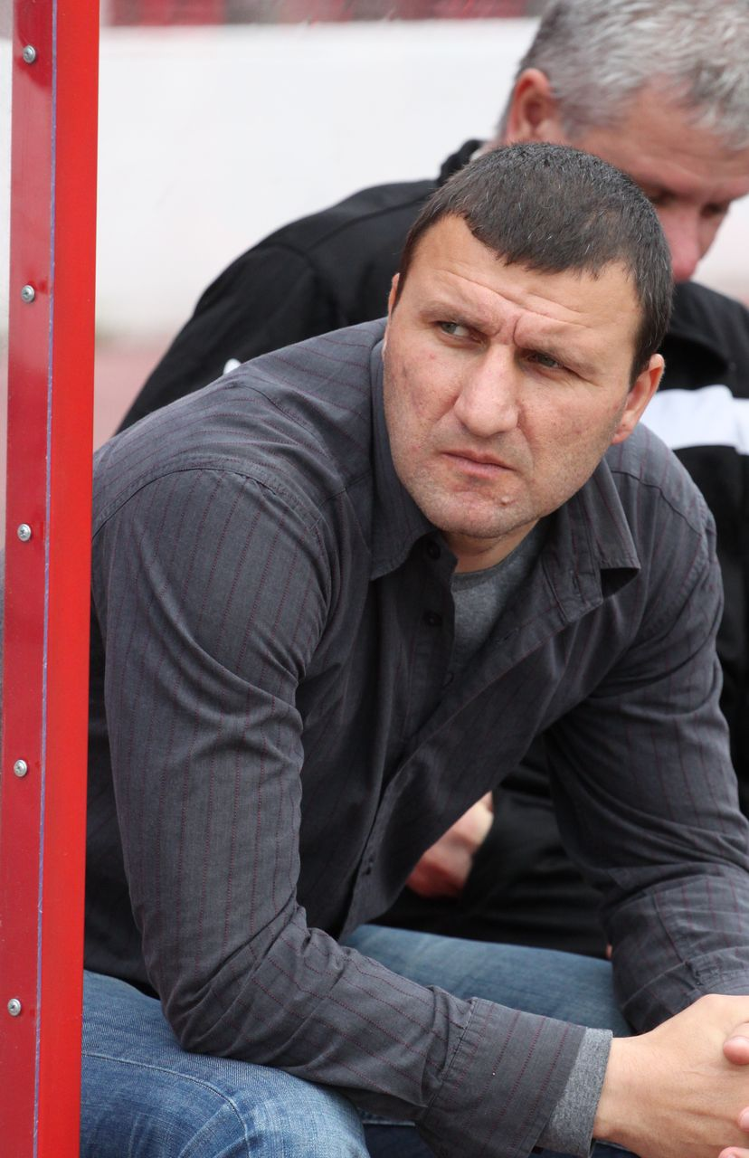 Kostadin Angelov (born 9 January 1973) is a Bulgarian football coach.[1] having left Vidima Rakovski in 2008.[2] Angelov is currently the head coach of Pirin Blagoevgrad. His nickname is the Laptop.